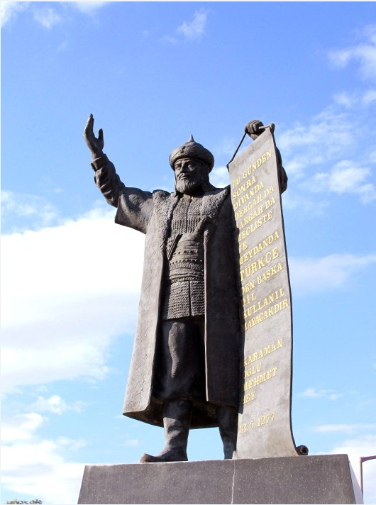 mehmed bey